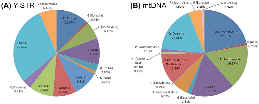 Distribution of world haplogroups in the Timorese sample. (A) Distribution of the Y-STR haplogroups among males. (B) Distribution of the mtDNA haplogroups. Populations are shown according to color. The Y-STR analysis yielded genotypes for 265 of the 267 Timorese males. Using the publicly available databases World Haplogroup & Haplo-I Subclade Predictor[1] and Althey's Haplogroup Predictor[2], 11 haplogroups were assigned to 248 of these subjects. The origin of the haplogroups is mostly Asia (73%), followed by Africa and Eurasia (13% each), and a small percent Oceana (1%). MtDNA genotypes were determined for all 535 Timorese subjects using the publicly available reference data and are distributed among 14 haplogroups. The haplogroups distribution shows that the origin of the Timorese males is mostly Asian (69%), followed by Oceanic (17%), African (13%), and a small percent Eurasian (1%). Given the within-group diversity present, it is likely that either multiple migrations or a few migrations of distantly related male individuals from Asia and other parts of the Old World have populated the islands, which is consistent with pre-historical and historical events.